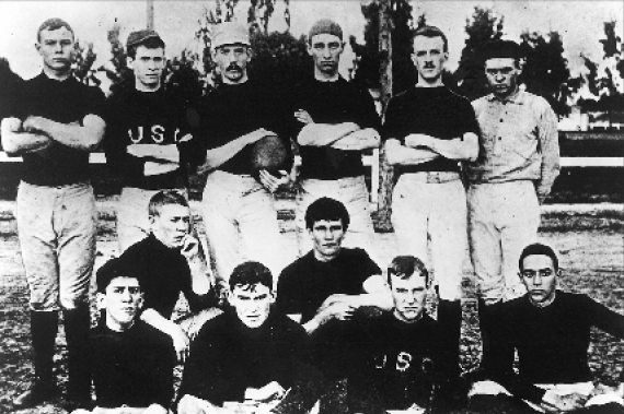 The first football team fielded by the University of Southern California: The 1888 USC fighting Methodists (teams later renamed the Trojans).